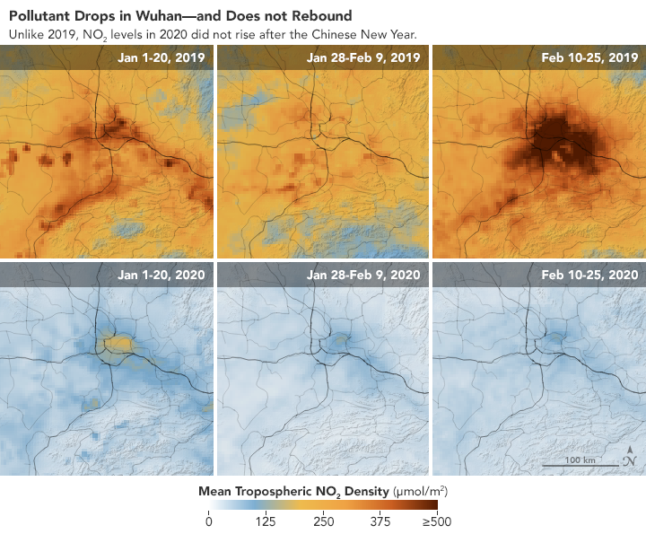 pollutant drops in Wuhan, China from 2019-2020 due to corona virus